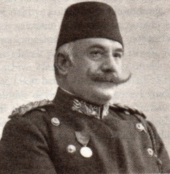 Nazım Pasha (1848–1913)